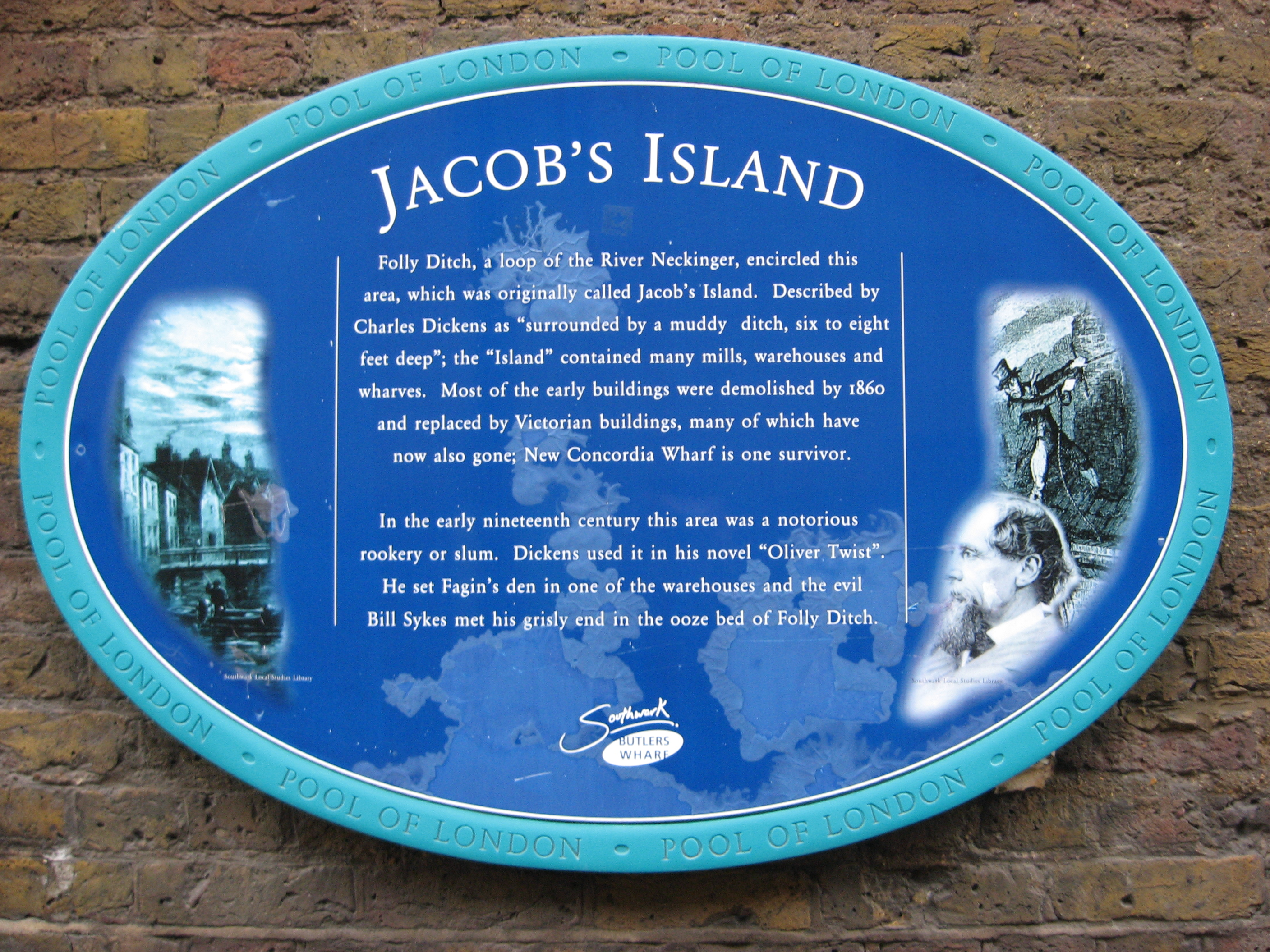 "Folly Ditch, a loop of the River Neckinger, encircled this area, which was originally called Jacob's Island. Described by Charles Dickens as 'surrounded by a muddy ditch, six to eight feet deep'; the 'Island' contained many mills, warehouses and wharves. Most of the early buildings were demolished by 1860 and replaced by Victorian buildings, many of which have now also gone; New Concordia Wharf is one survivor. "In the early nineteenth century this area was a notorious rookery or slum. Dickens used it in his novel 'Oliver Twist'. He set Fagin's den in one of the warehouses and the evil Bill Sykes met his grisly end in the ooze bed of Folly Ditch."